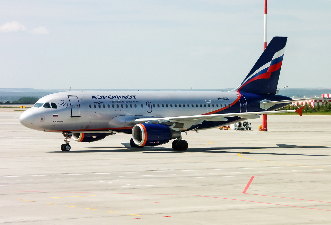 Airbus A319 VP-BDM at Kazan International Airport